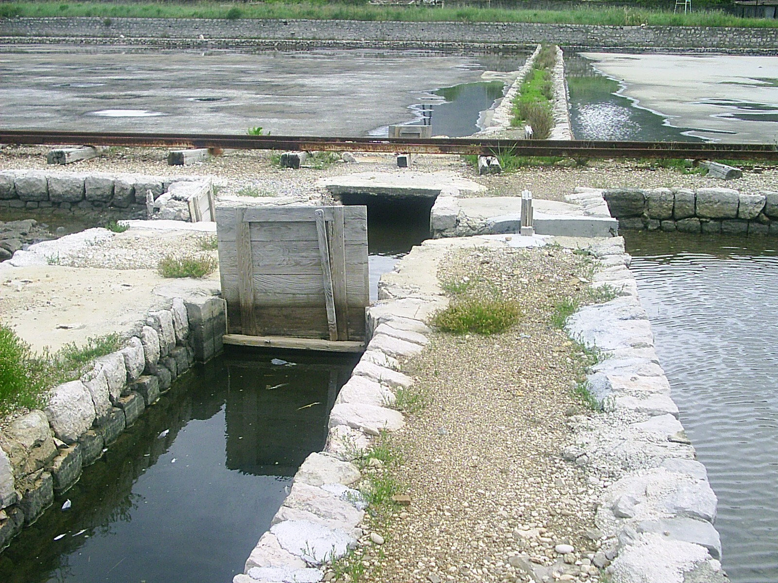 City of Ston at Pelješac peninsula, Croatia